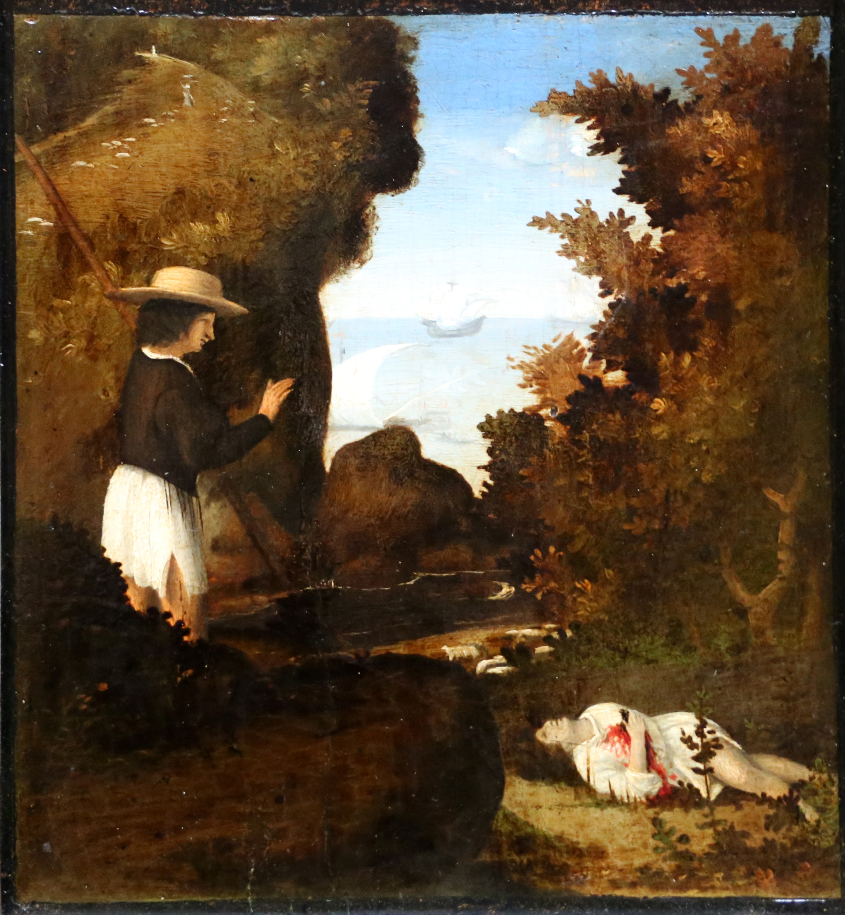 Italian Mannerist paintings in the National Gallery, London